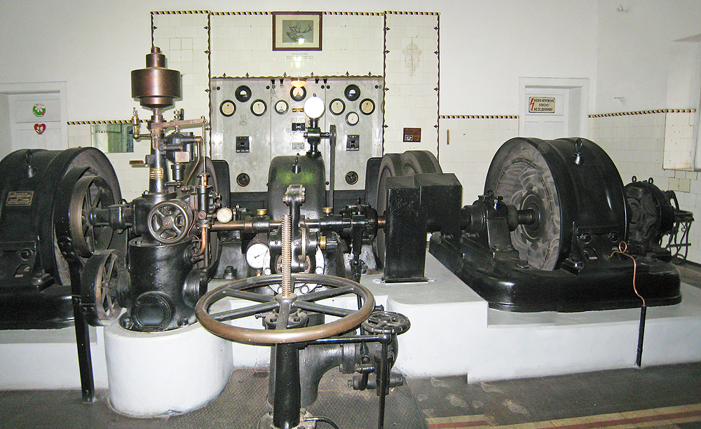 Siemens AG 170 kW hydropower generator built and installed in 1912 in Tsarska Bistrica Palace, Bulgaria